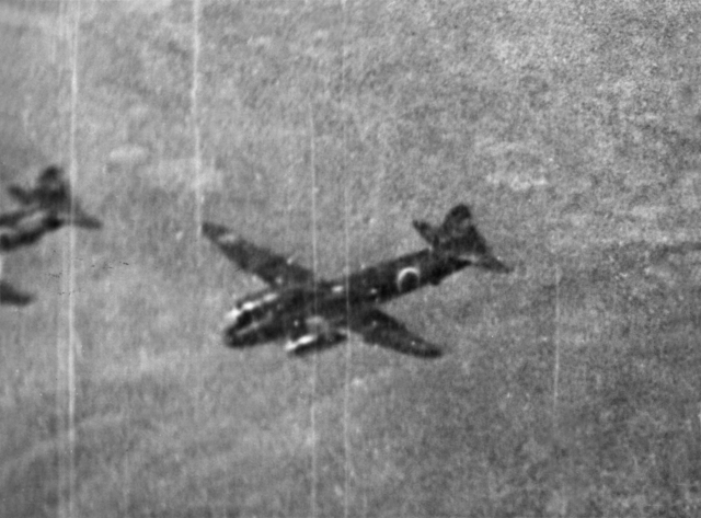 Darwin, NT. 6 June 1943. A camera gun photograph taken from a Spitfire flown by Flight Sergeant Batchelor of No. 457 Squadron RAAF, during the 58th Japanese air raid on Darwin. The aircraft in the camera gun frame is a Japanese Mitsubishi G4M1 Betty.